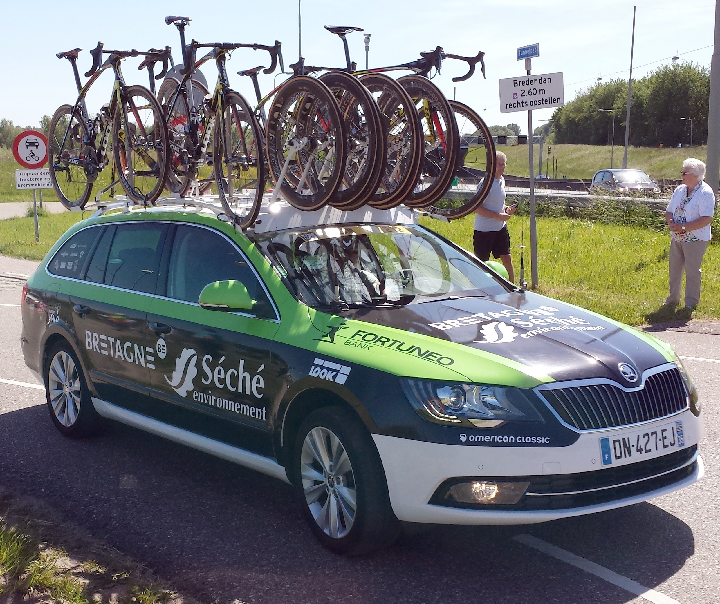 Bretagne Seche car at the World Ports Classic 2015